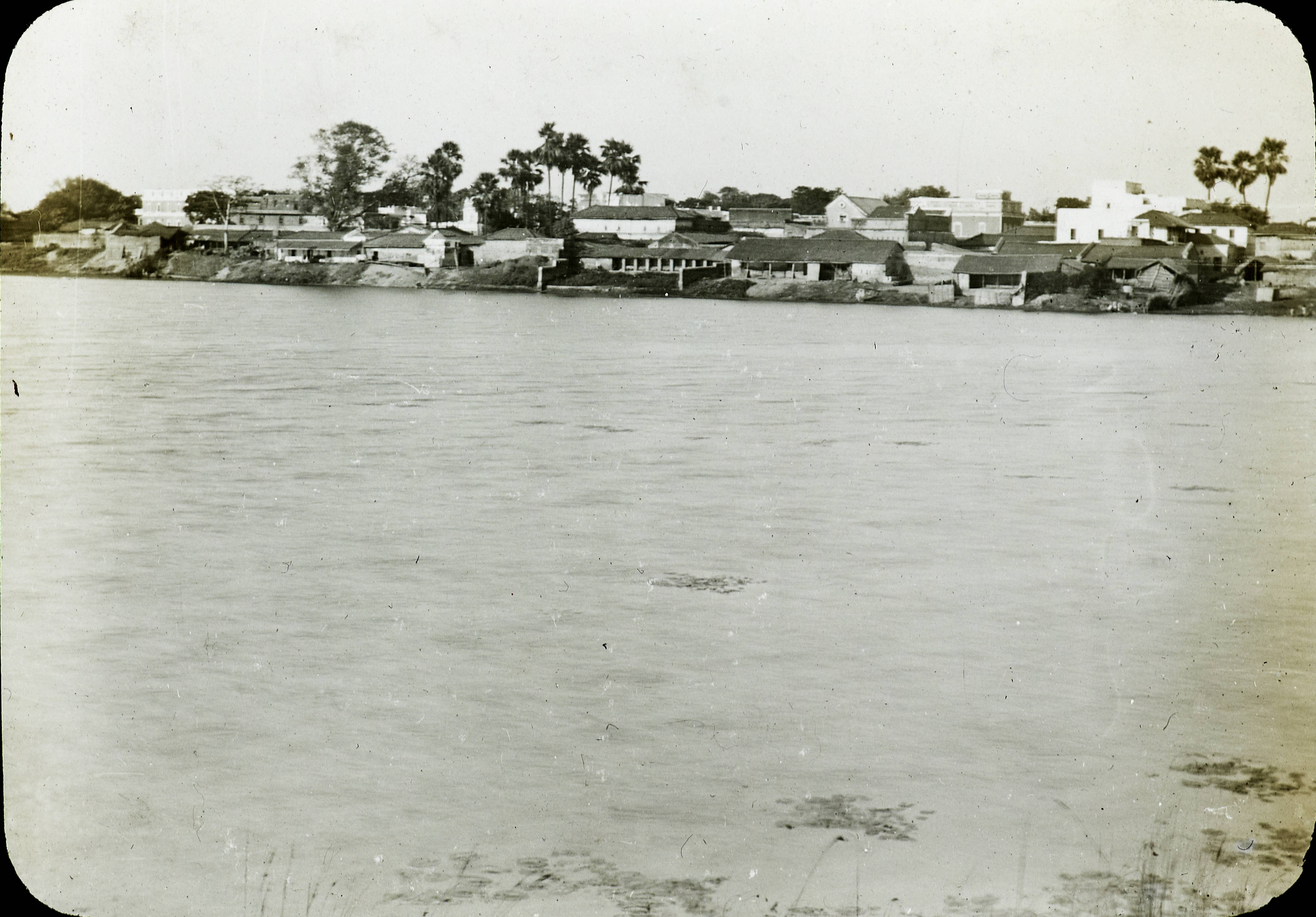 View of Motihari, India, ca. 1906 Black and white lantern slide showing the view towards the centre of the town of Motihari from the mission station of Regions Beyond Missionary Union nearby. A large expanse of water can be seen. The original commentary to the slide reads: "View of Motihari from Station showing lake in front." This slide comes from a collection created by missionaries from Regions Beyond Missionary Union, an interdenominational Protestant evangelical mission working in northeast India (Bihar and Orissa) and Nepal. Photographer: Unknown Filename: IMP-CSCNWW33-OS14-8.tif Coverage date: 1900/1910 Subject (unesco): Lakes Part of collection: International Mission Photography Archive, ca.1860-ca.1960 Part of subcollection: Photographs from the Centre for the Study of World Christianity, University of Edinburgh, U.K., ca.1900-ca.1940s Repository name: Centre for the Study of World Christianity Archival file: Volume3/IMP-CSCNWW33-OS14-8.tif Geographic subject (city or populated place): Motihari Repository address: The University of Edinburgh School of Divinity, New College, Mound Place, Edinburgh EH1 2LX, United Kingdom Geographic subject (country): India Format (aacr2): lantern slides 8.2 x 8.2cm Geographic subject (continent): Asia Rights: Contact the repository for details. Part of series: Regions Beyond Missionary Union. India captioned lantern slides (CSCNWW33/OS14) Repository Date created: 1900/1910 Publisher (of the digital version): University of Southern California. Libraries Subject (aat genre): exterior views Format (aat): lantern slides; photographs Geographic subject (state): Bihar Access conditions: Geographic subject: lakes File: CSCNWW33/OS14/8 Contributor: Gardner & Co Opticians, Glasgow Subject (lcsh): Cities and towns; Lakes